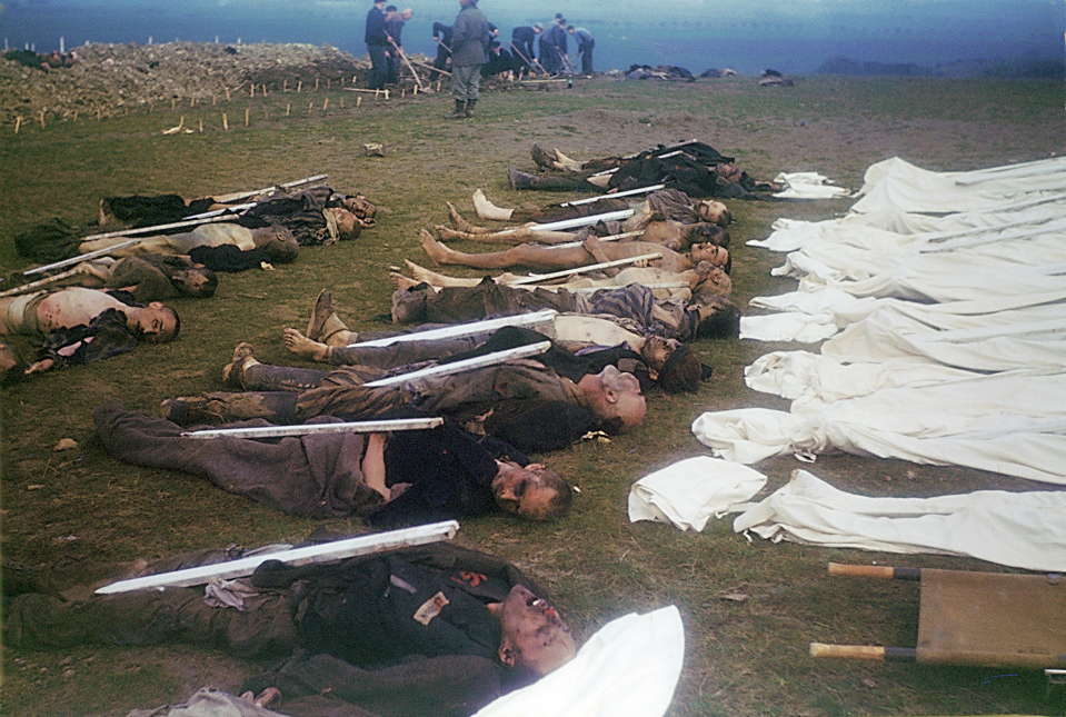 The bodies of former prisoners are laid out in rows in preparation for burial in the Ohrdruf concentration camp. Lieutenant Colonel Parke O. Yingst was born in Hummelstown, PA in 1908. In 1930 he graduated from the Colorado School of Mines and joined the Army Corps of Engineers as a reservist. He subsequently went to work in Venezuela. During this period, his reserve commission expired. After returning to the United States in 1940, Yingst applied for recommissioning so that he could join the fight against Hitler. In 1942 he was ordered to active duty as a First Lieutenant in the Army Corps of Engineers. On April 4, 1944 he was promoted to Major, and in July, he assumed command of the 281st Engineer Combat Battalion. In April 1945 Yingst was present at the liberation of the Ohrdruf and Buchenwald concentration camps. He was eventually promoted to Lieutenant Colonel prior to his separation from the army for medical reasons.